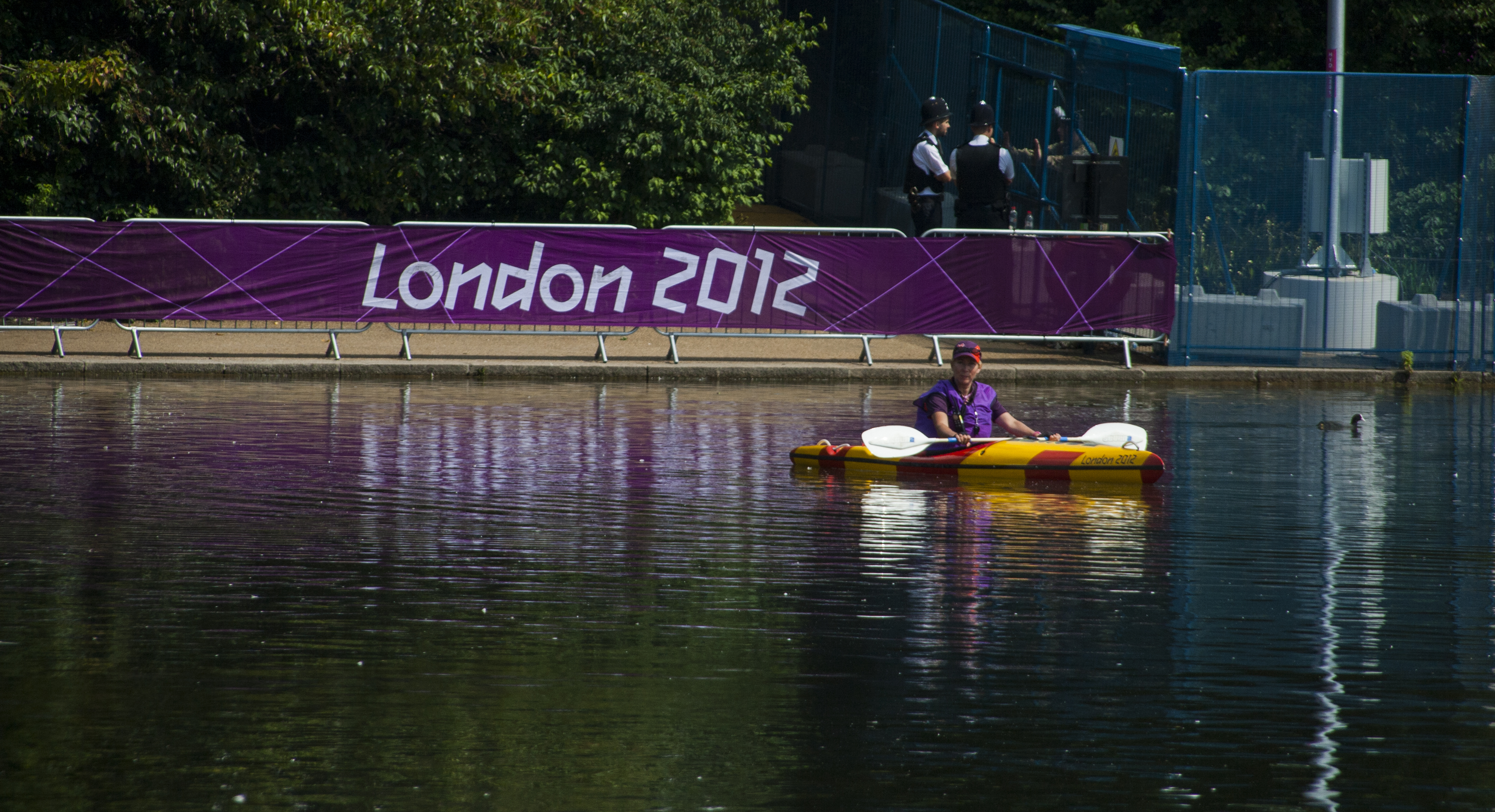 The men's 10 kilometre marathon swim at the 2012 Olympic Games in the Serpentine at Hyde Park.